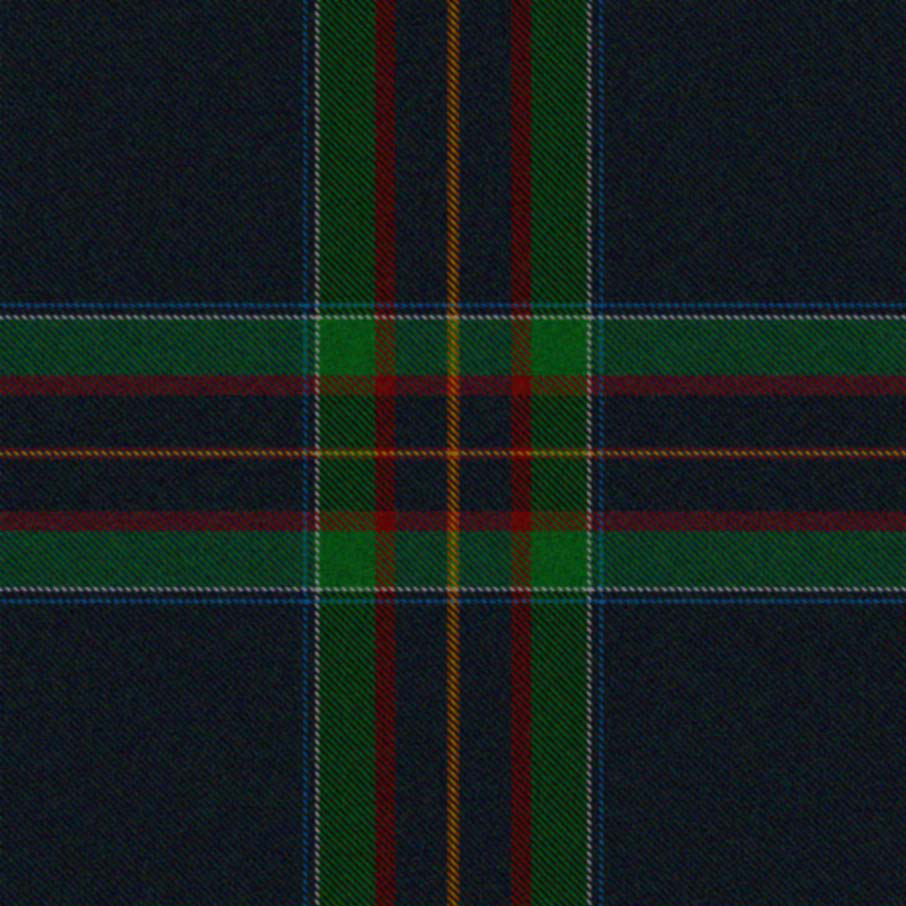 This is my image that I created with Photoshop